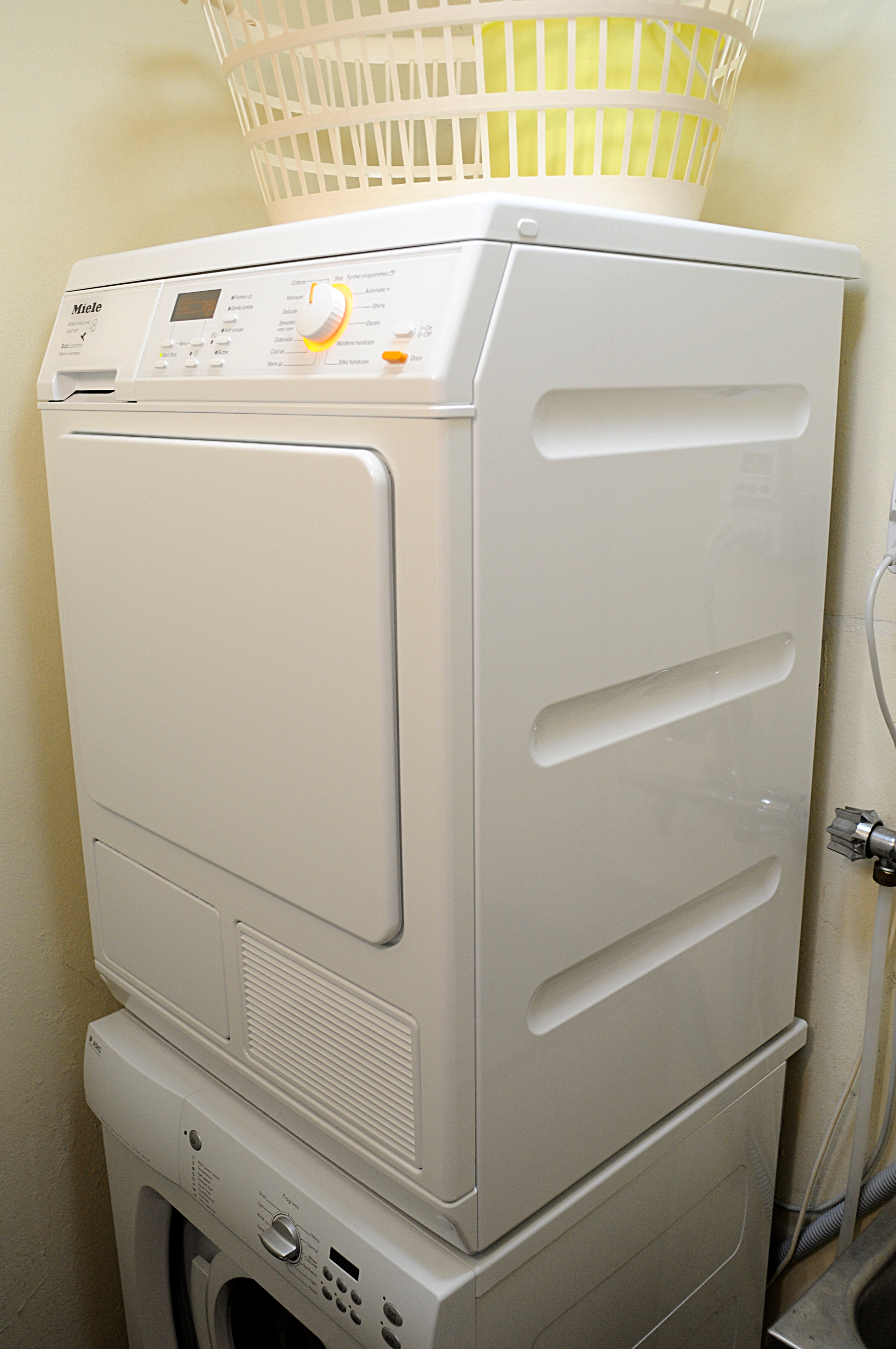 A Miele T8627WP heat pump clothes dryer.